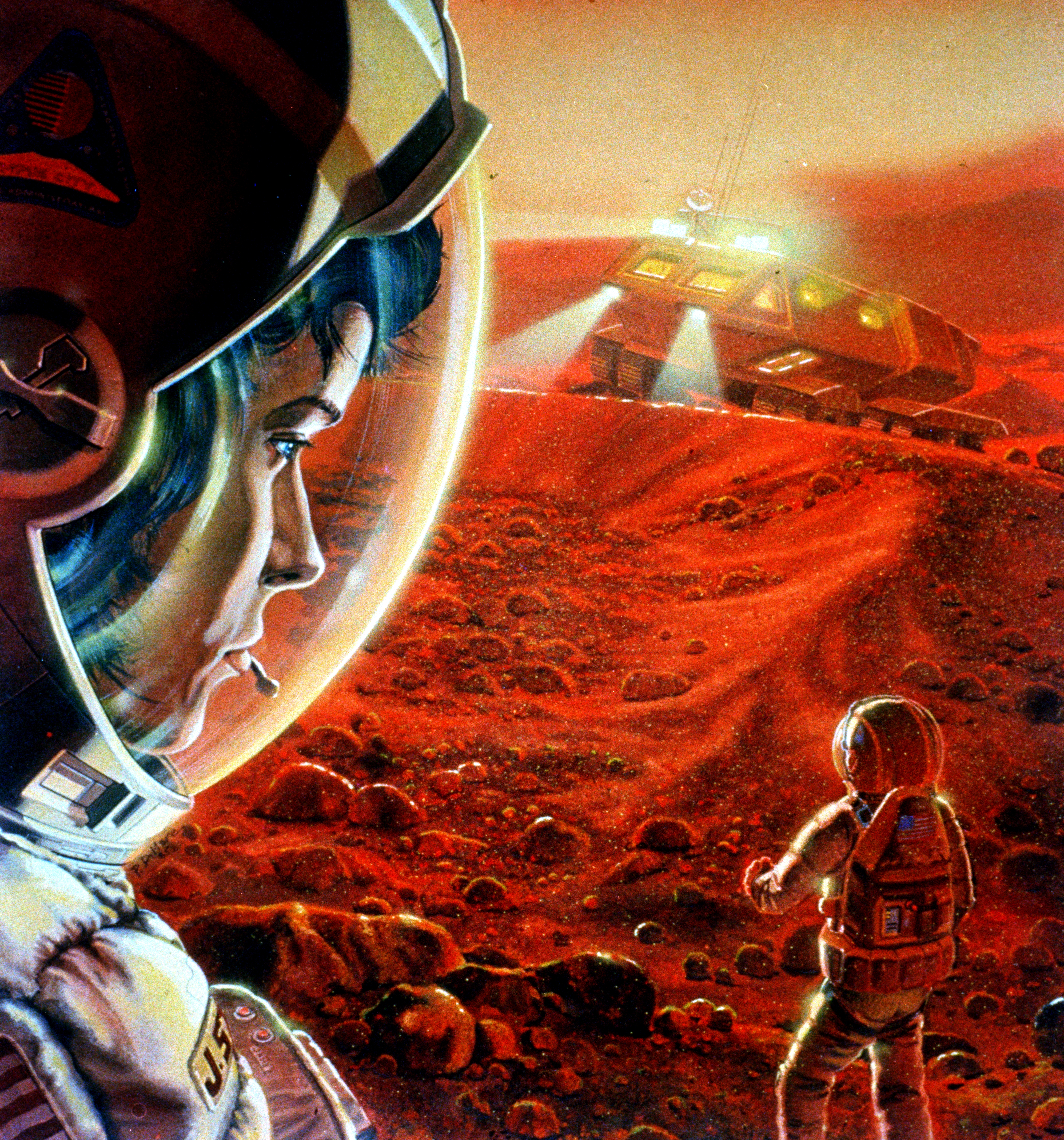 This artist's concept depicts a possible scene of astronauts walking on Mars during a dust storm. The artwork was part of a NASA new initiatives study that surveyed possible future human planetary expeditions. Scientists and researchers involved in the study, realizing that a hostile environment will confront long-distance space travelers, note the requirement of highly specialized technologies and systems (e.g., the durable type suits, depicted here, for protection against the dust storm).